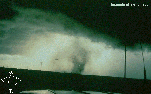 A gustnado in southeastern Wisconsin on 4 October 2002.